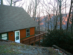 author, Posner, Michael